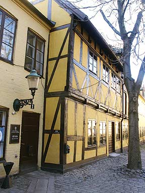 The old buildings in the block of "St Gertrud" in Malmo, Sweden.